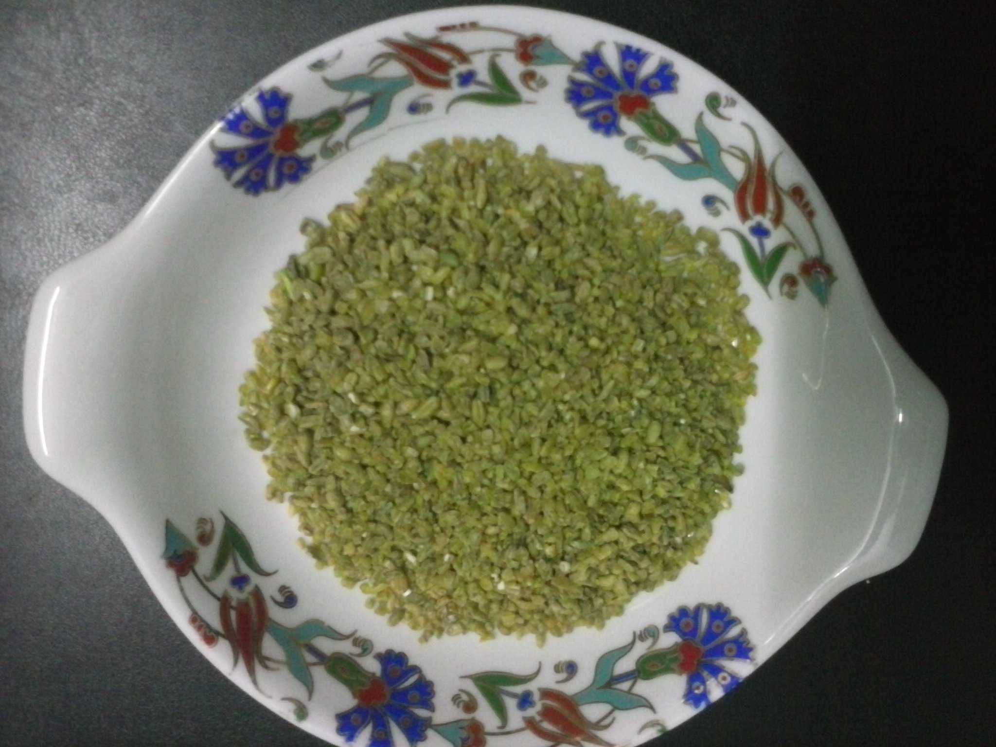 Mixed grains that are similar to rice in preparation. They can be eaten alone or with meat/chicken. This is an image of food from Egypt